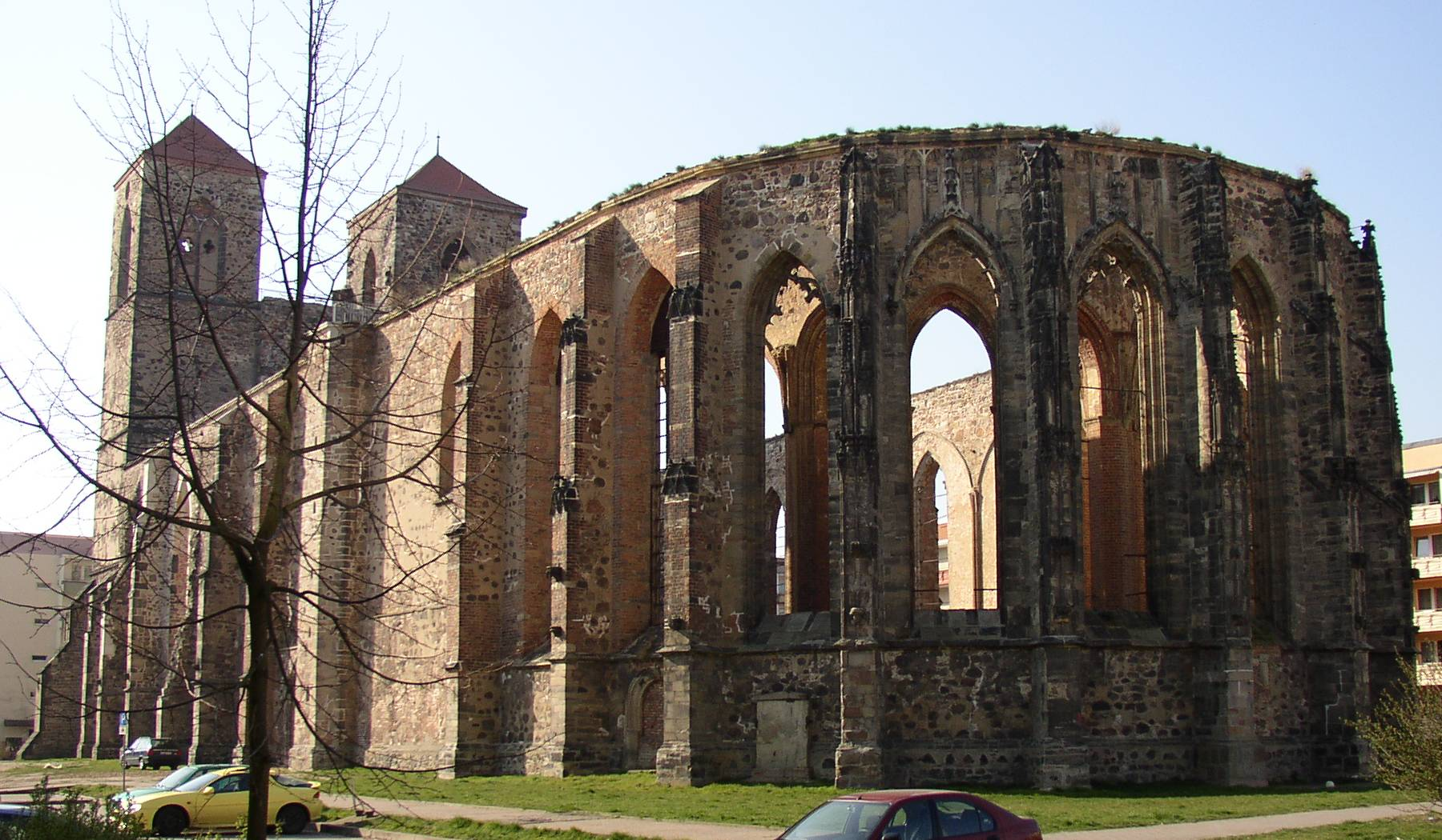 Church of Saint Nicholas in Zerbst in Saxony-Anhalt, Germany